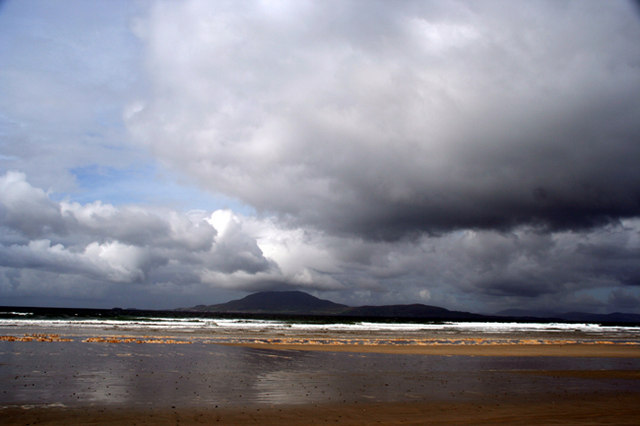 Storm Clouds towards Clare island Along the strand towards Clare Island